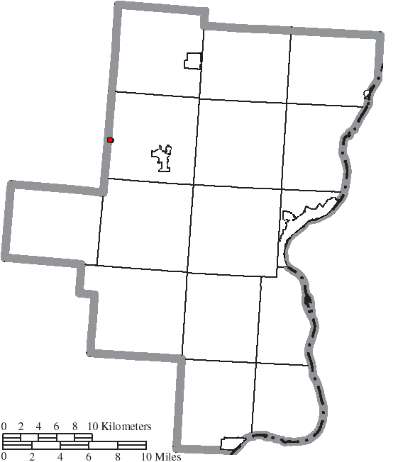 Map of the municipal and township boundaries of Gallia County, Ohio, United States, as of the 2000 census, with the location of the village of Centerville highlighted. Township borders are shown only in unincorporated areas in order to differentiate incorporated and unincorporated areas more clearly.